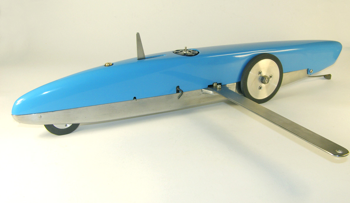 Model tether racing car with engine 1.5 cm³